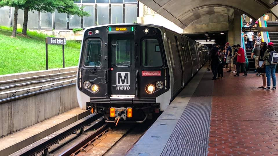 WMATA Kawaski Consists on the Green Line at Fort Totten heading to Branch Avenue